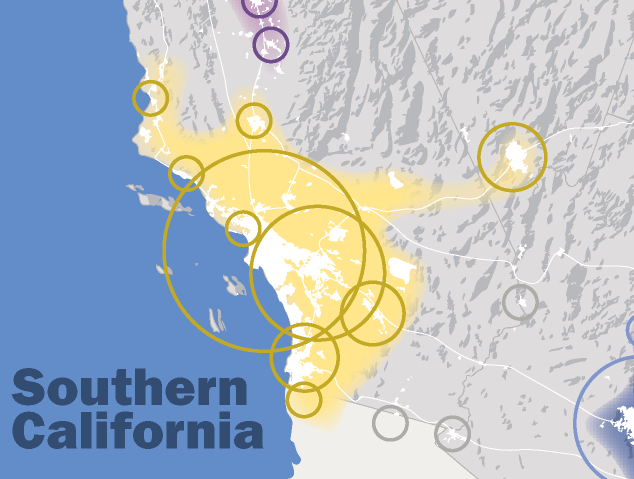 This map, created by the Regional Plan Association, illustrates the Southern California megaregion